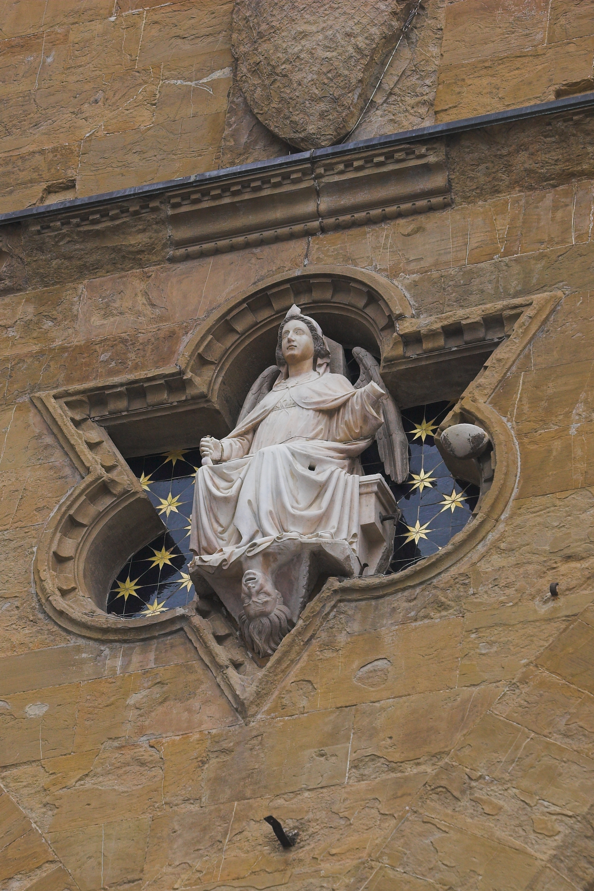 An image of Justice, one of the four cardinal virtues Her sword and her hand holding scales have broken away. Photo by Thermos.